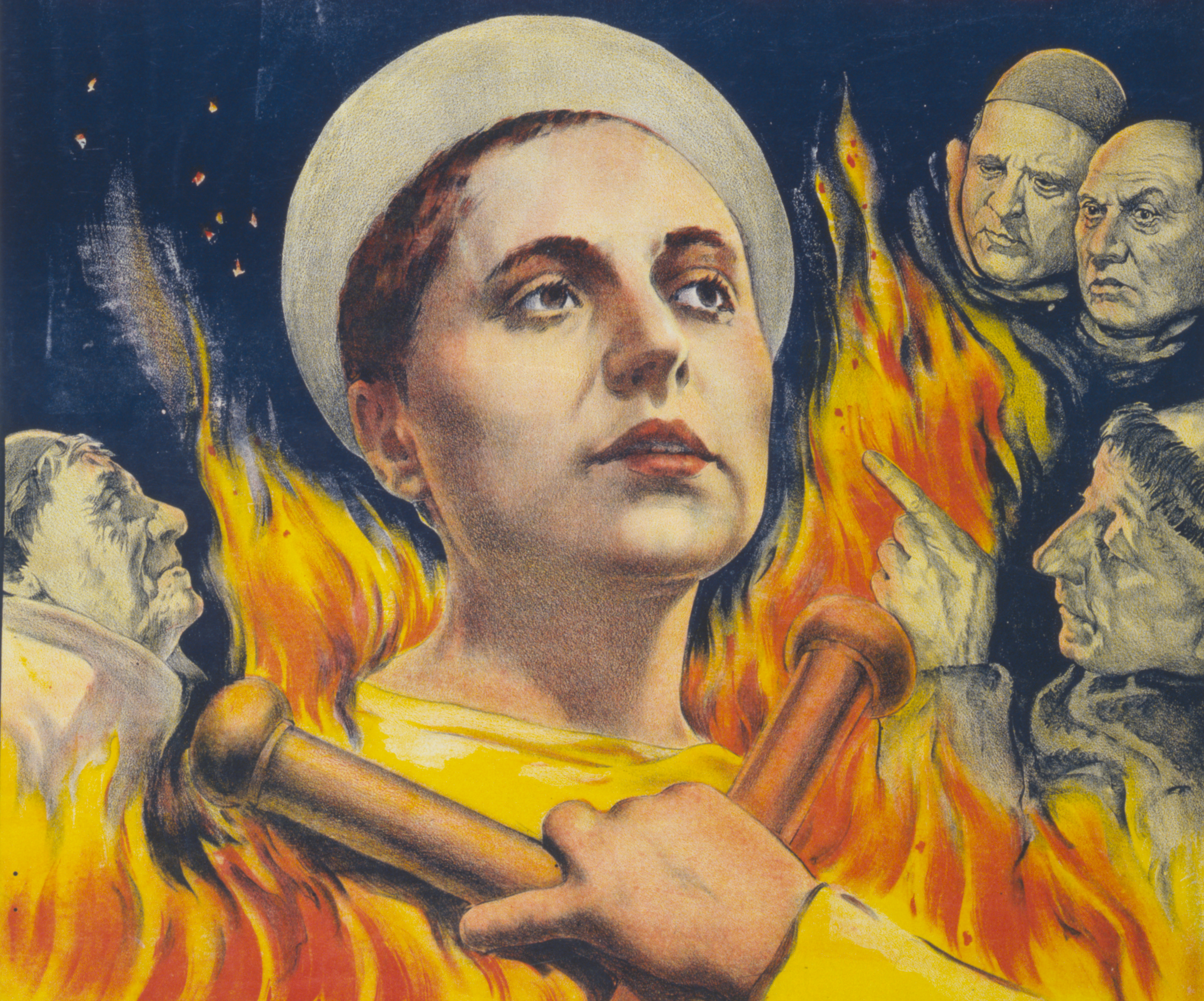 Motion picture poster for The Passion of Joan of Arc directed by Carl Theodor Dreyer, with Renée Jeanne Falconetti (pictured) and Antonin Artaud, produced in France in 1927 and first shown in Copenhagen in 1928. The poster consists of a painting and does not contain any stills from the French film.